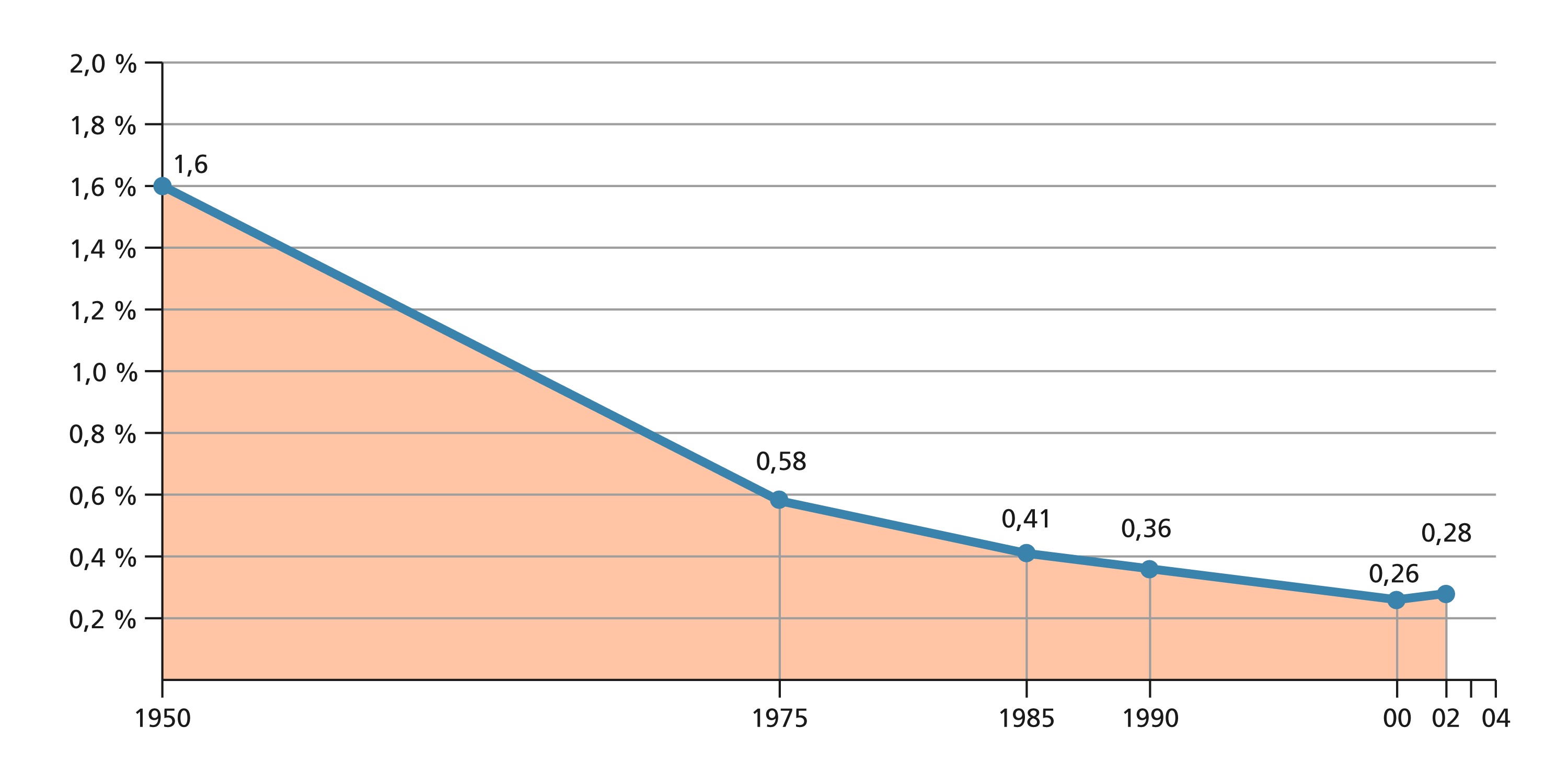 Price of porc meat in Germany from 1950 to 2004 in relation to the monthly net income. Unit is percent.